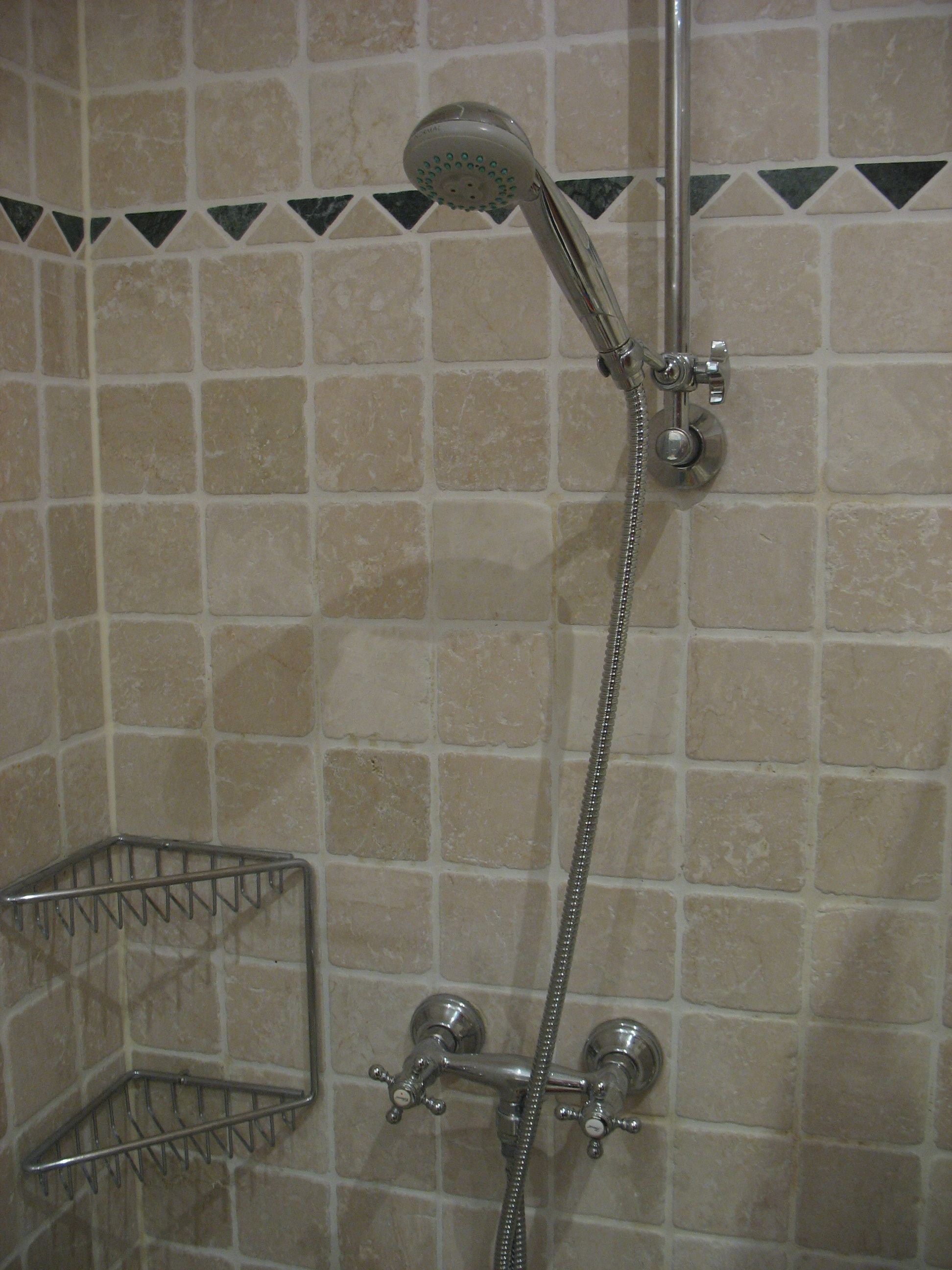 German shower tap